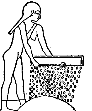 An illustration from the Encyclopaedia Biblica, a 1903 publication which is now in the public domain. Fig. 13 for article "Agriculture". Image of Sifting